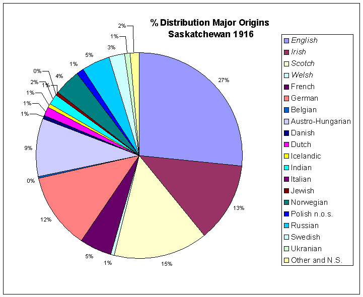 Per cent proportion the population of each specified origin by nativity is of the total population of each province, 1916. Census of Prairie Province, 1916 - Saskatchewan. Own work, pie chart made from table on page 7 Census of Prairie Provinces Population and Agriculture Manitoba Saskatchewan Alberta Ottawa J. de Labroquerie Taché Printer to the King's Most Excellent Majesty 1918 [ Saskatchewan Gen Web 1916 Census Statistics